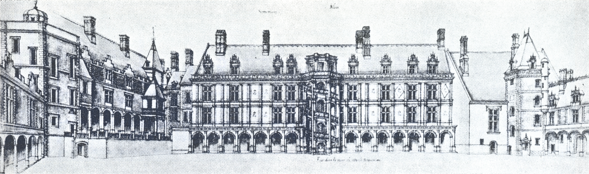 The Château de Blois in Loir-et-Cher, drawing before 1635